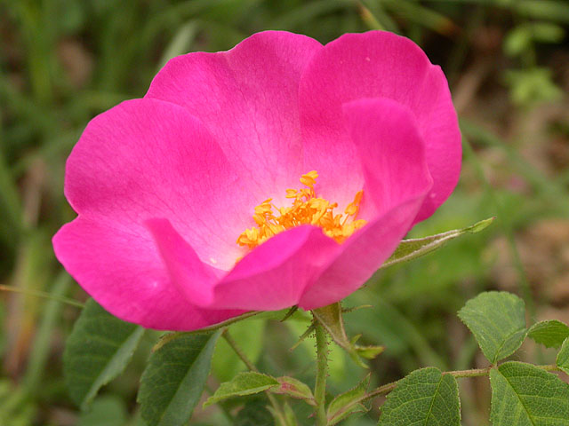 A flower of the species Rosa gallica